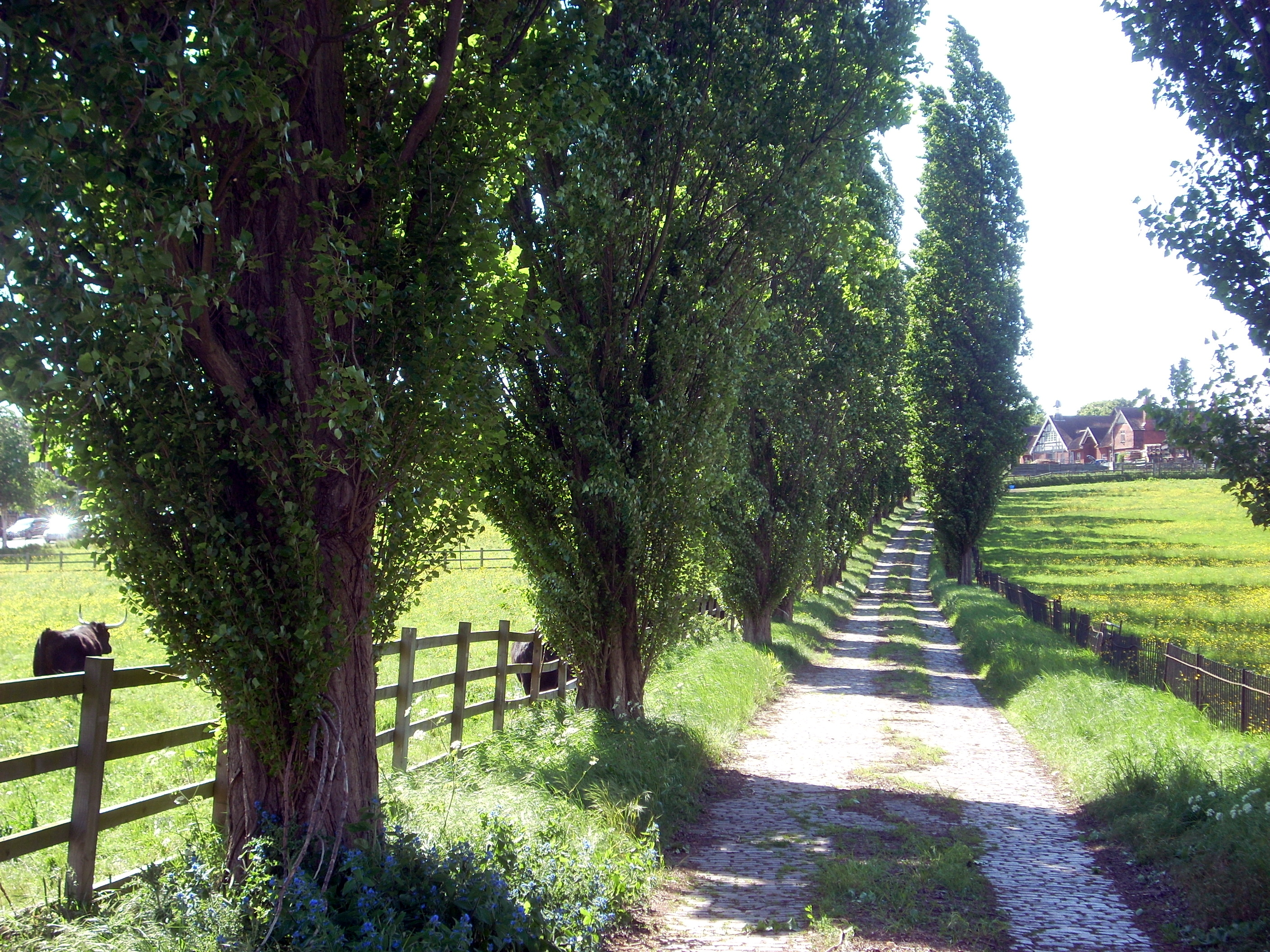 College Farm driveway fields finchley